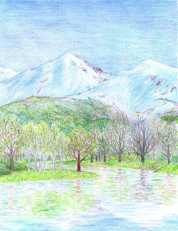 The river Brilthor.